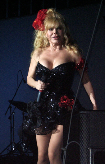 Charo performing in her third outfit at the 2004 Dutchess County Fair